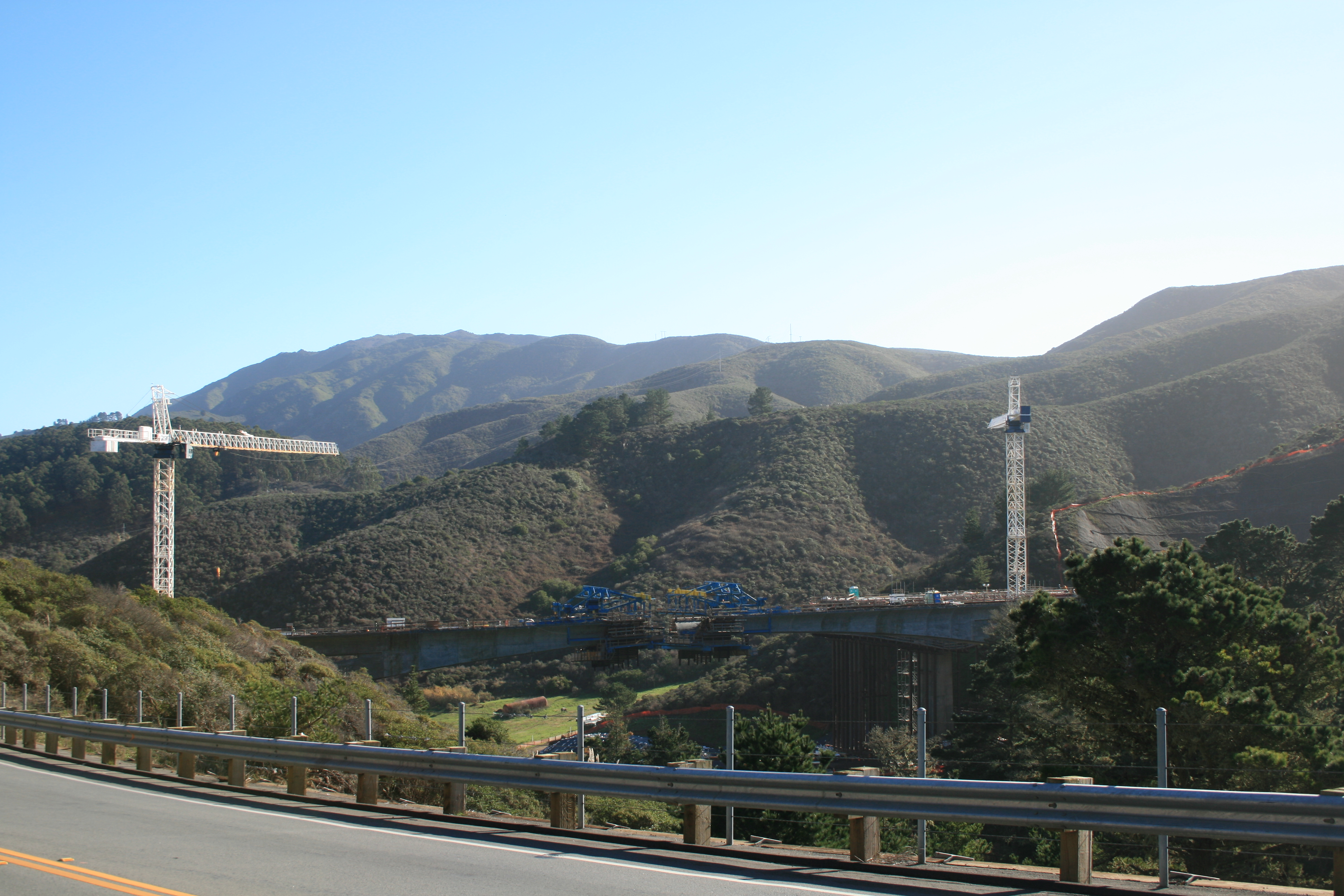 The construction of the bridge to the tunnel, which would go through Devil's Slide area of Highway 1